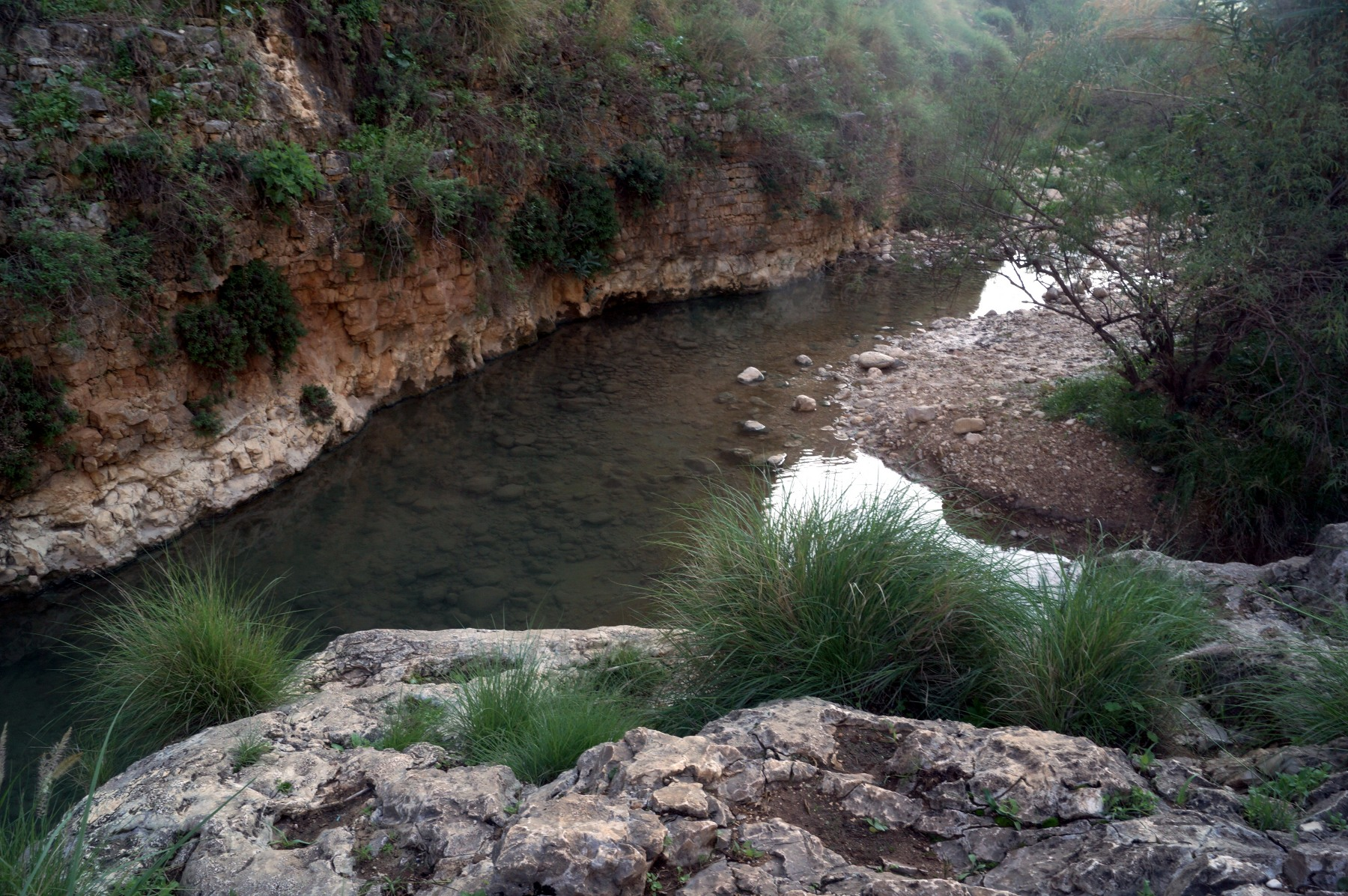 Geography of Israel